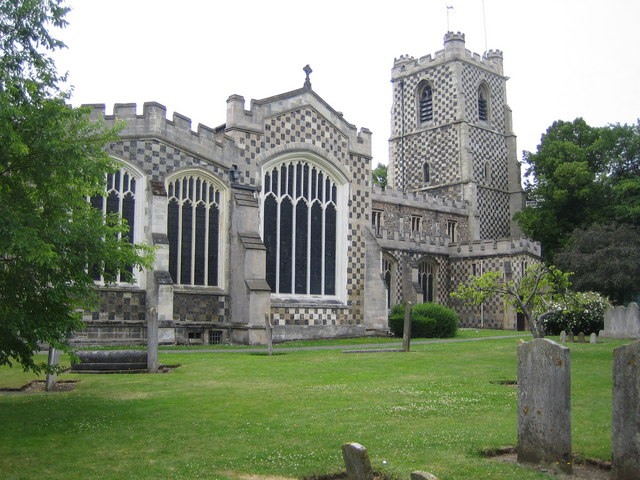 Saint Marys Church, Luton